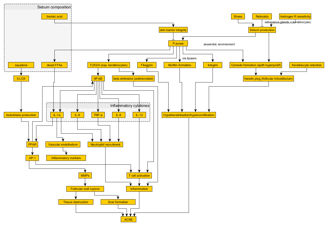 Information from Medscape Acne Pathogenesis Software: yEd